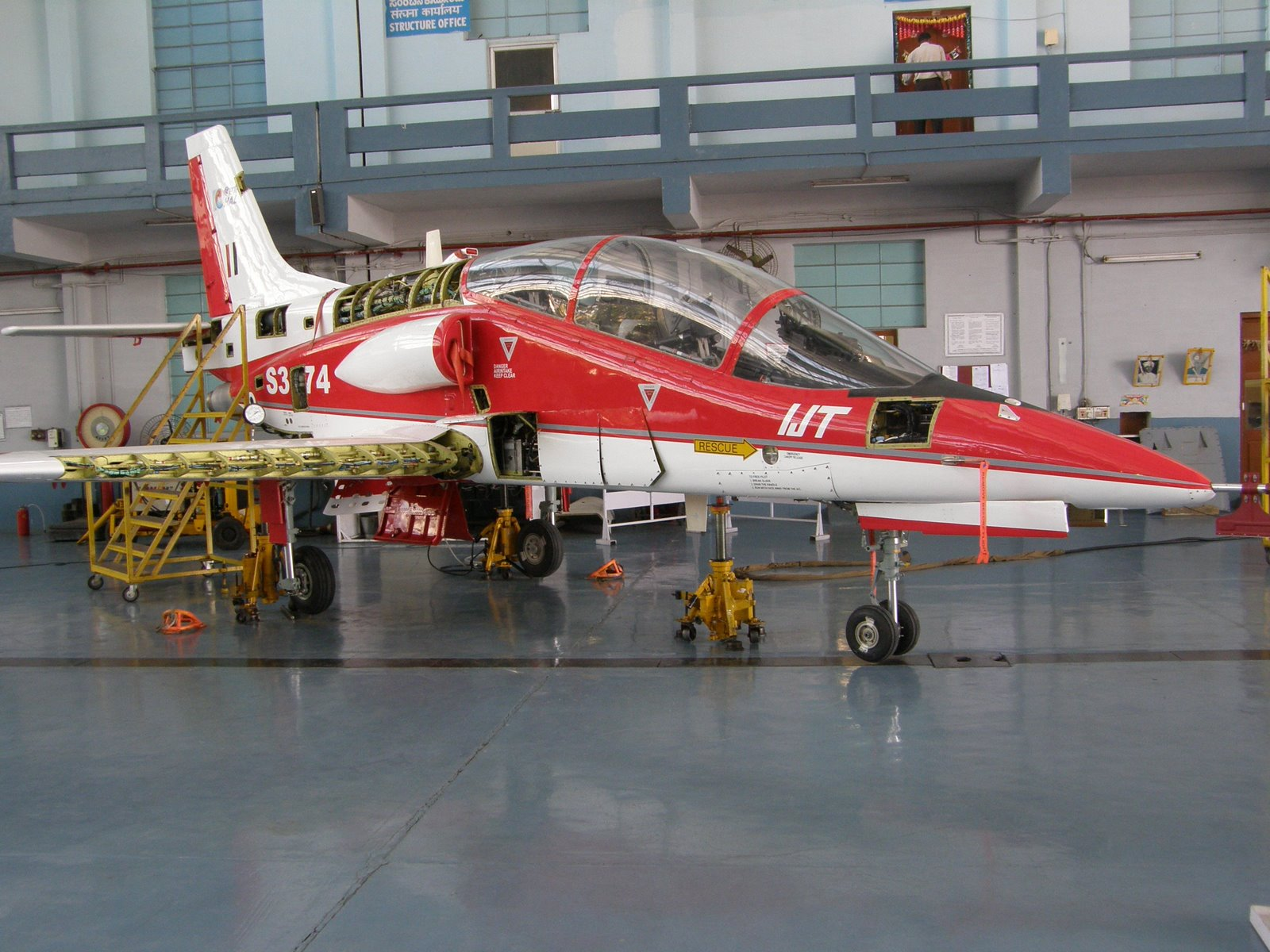 An HAL HJT-36 Intermediate Jet Trainer (IJT) prototype in its hangar at HAL, Bangalore.